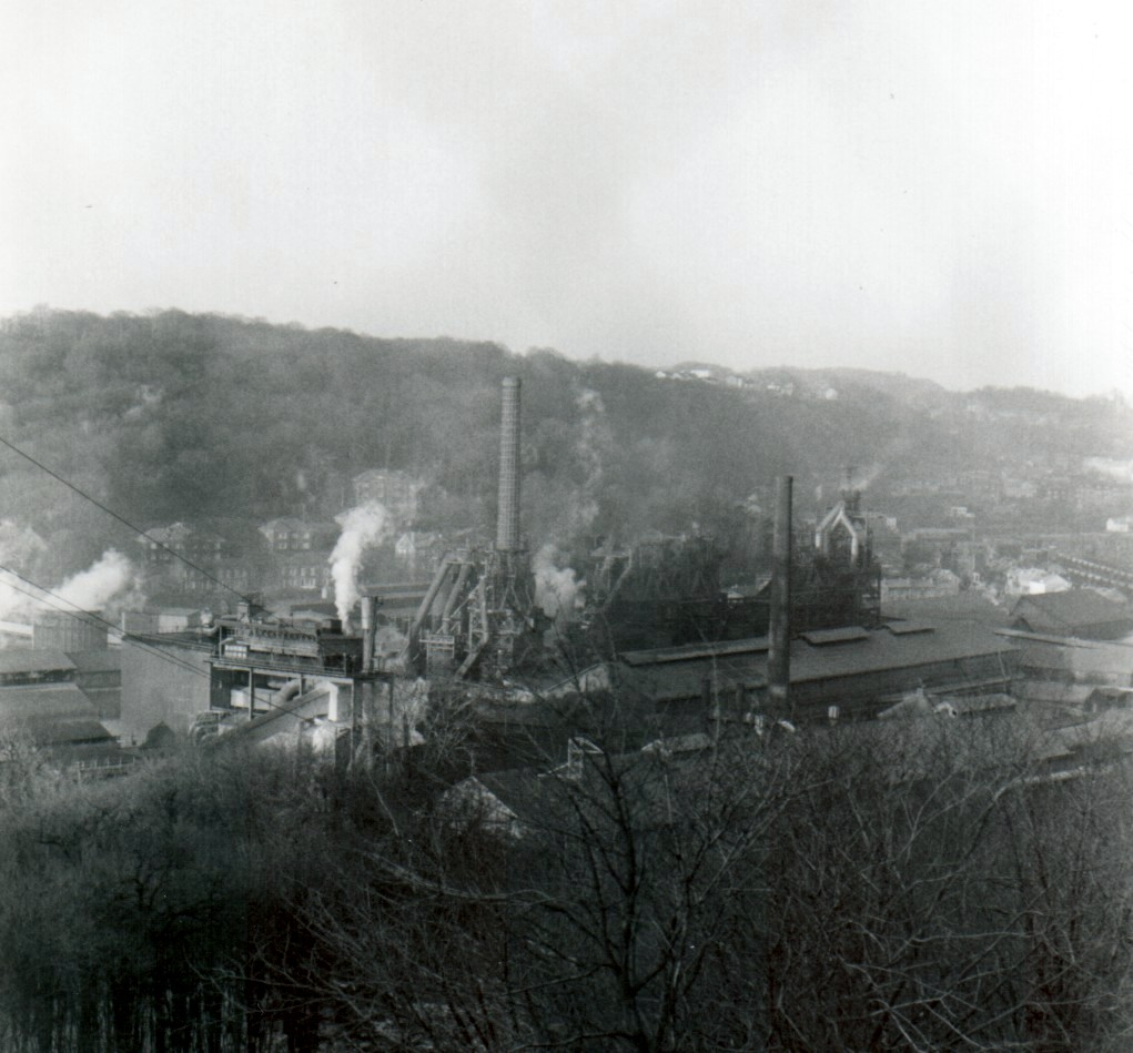 The integrated steel mill of La Providence in Réhon (France) in 1978.